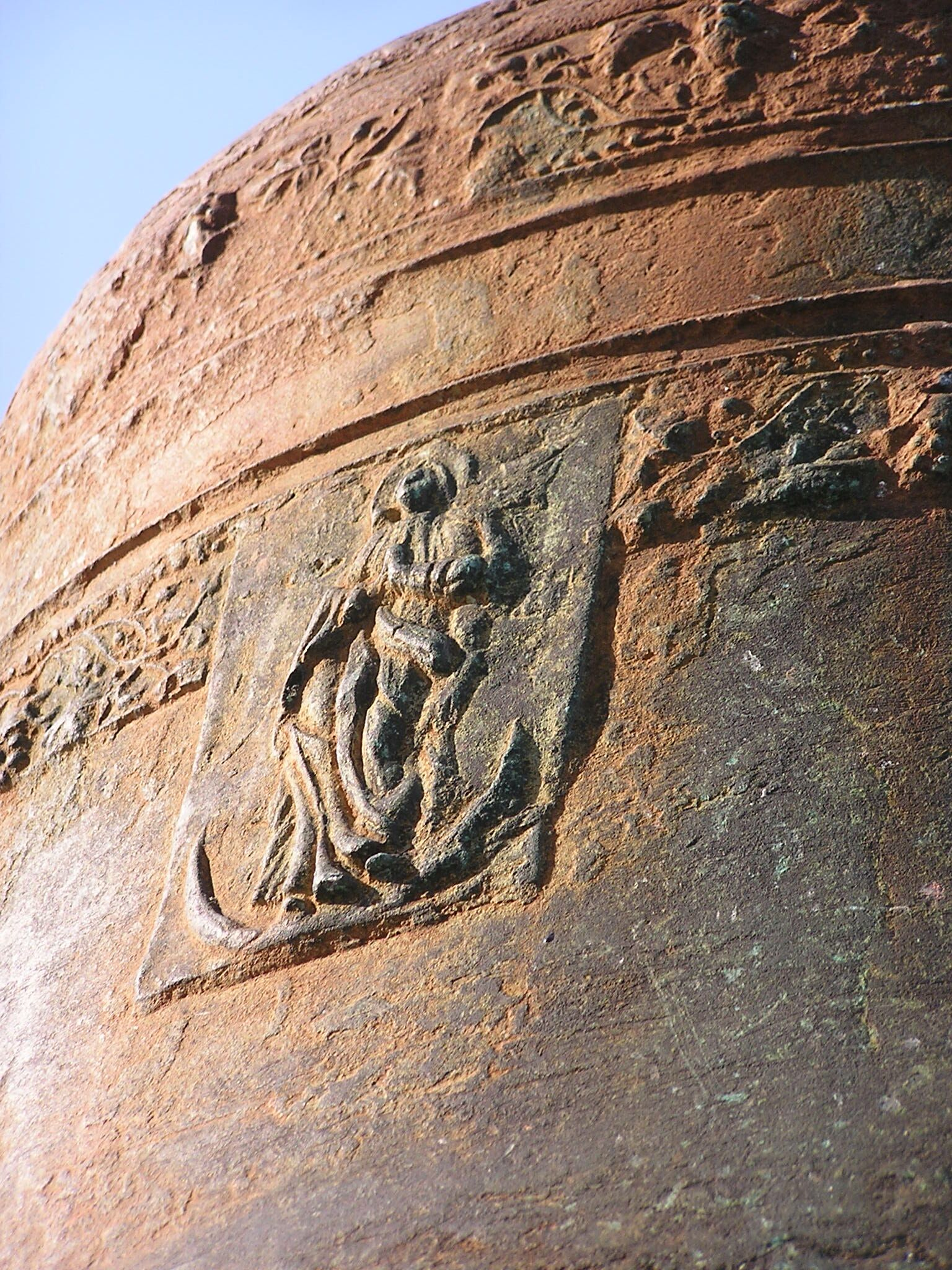 Chersonesos Taurica. Signal bell. Detail